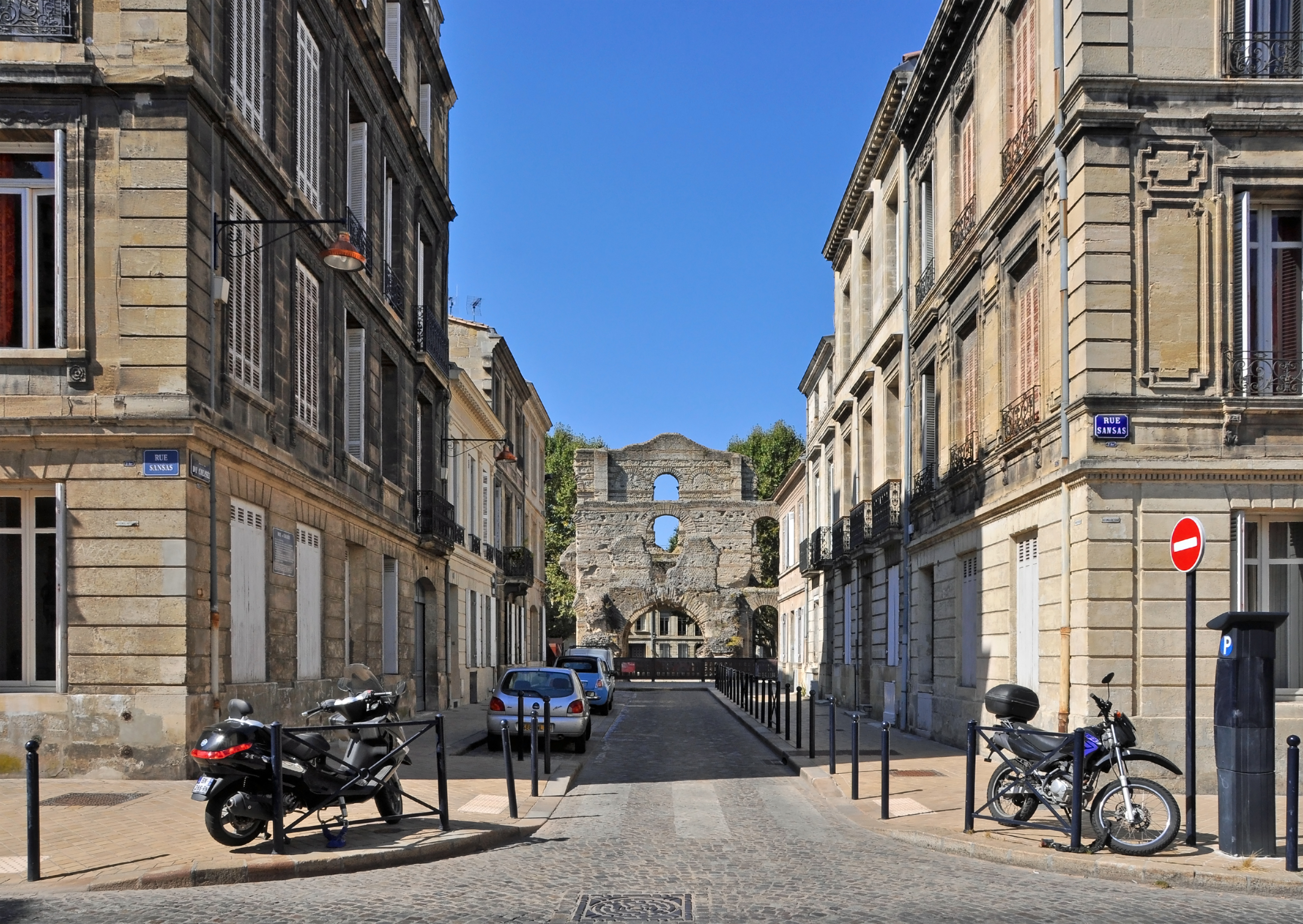 Bordeaux (France): the Rue du Colisée, with in the background the ruins of the Palais Gallien